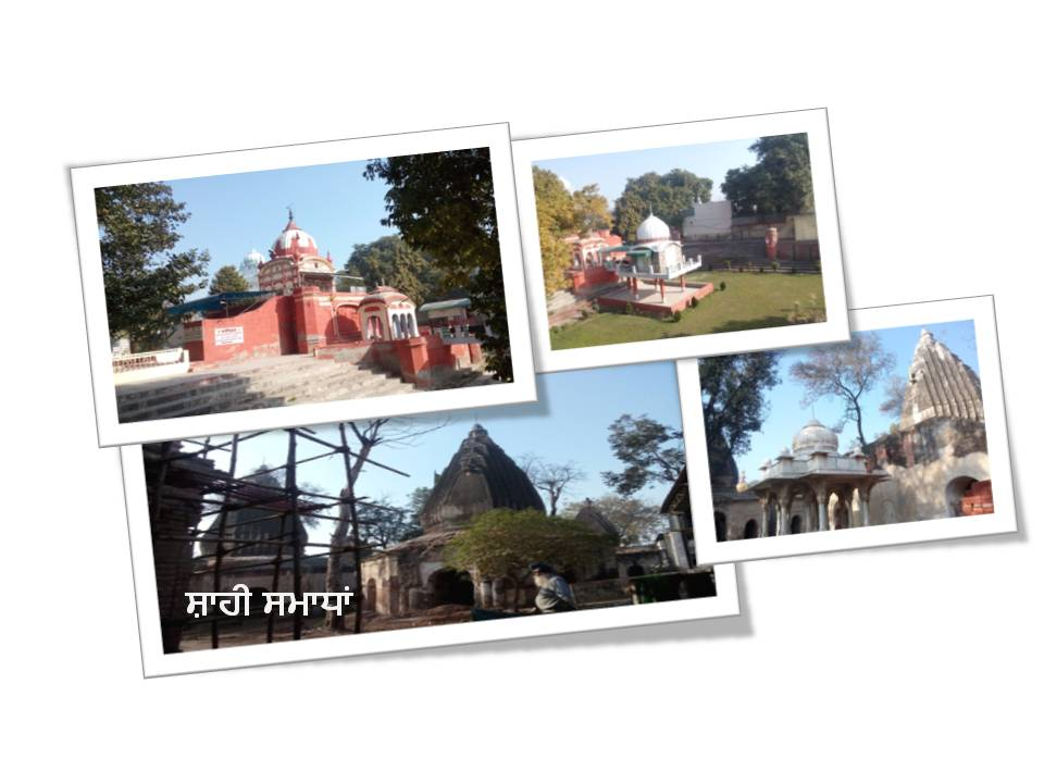 The temples at sangrur